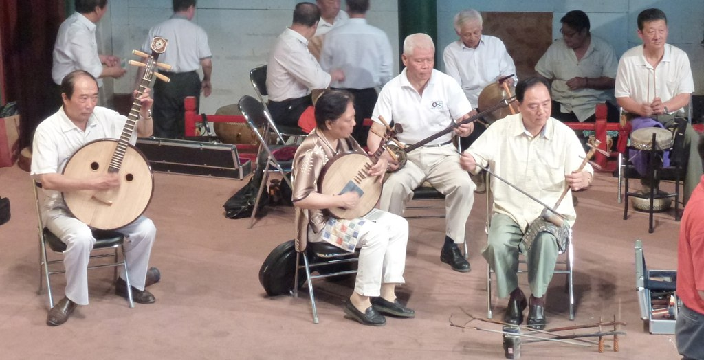 part of the orchestra of Beijing opera